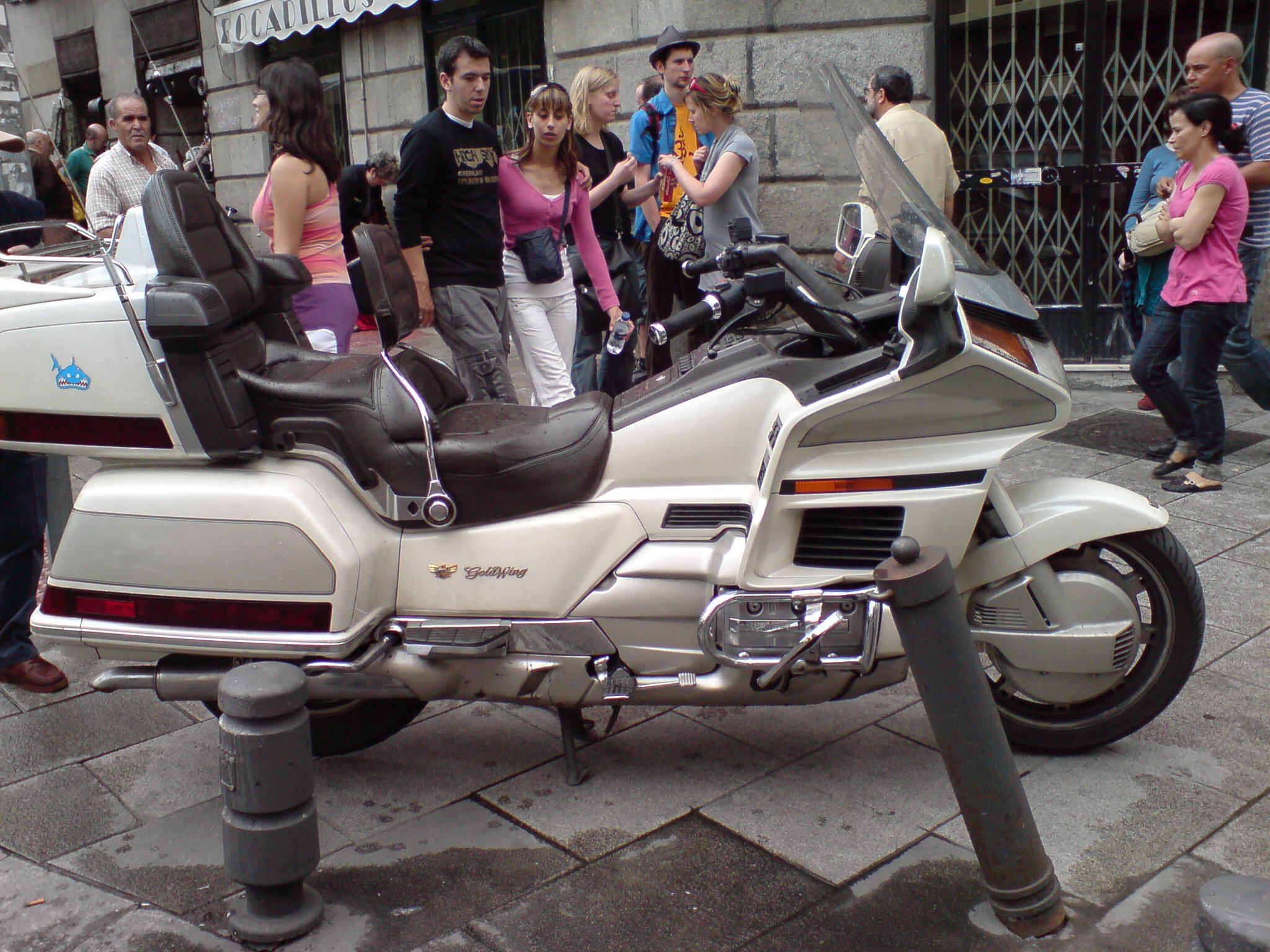 Honda Goldwing GL1500